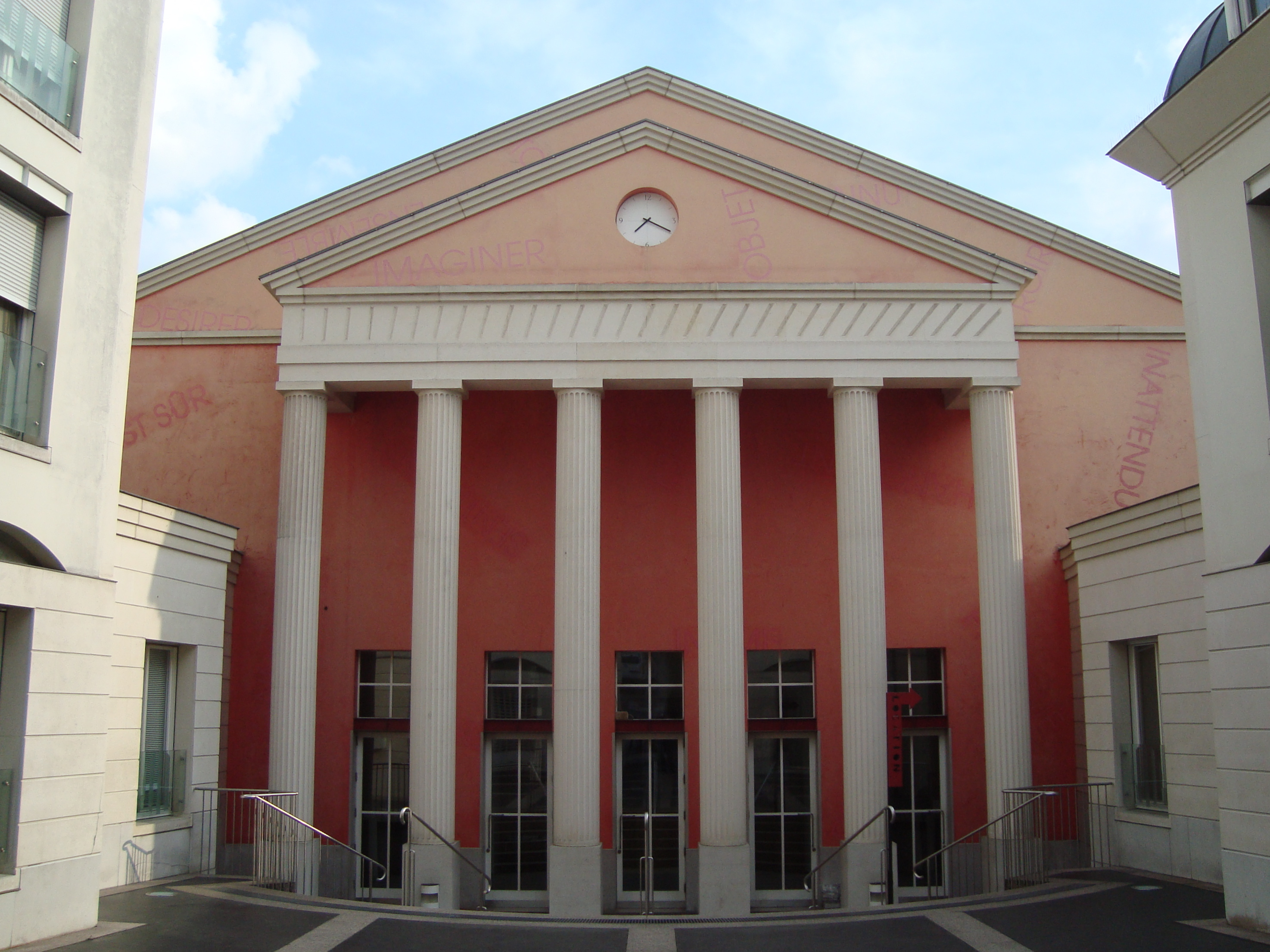 View of the facade of the Théâtre des Abbesses - Théâtre de la Ville in Paris